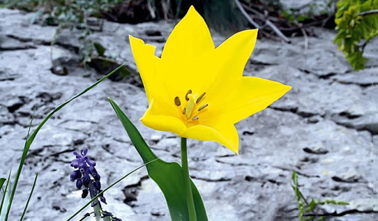 Đerdapska lala